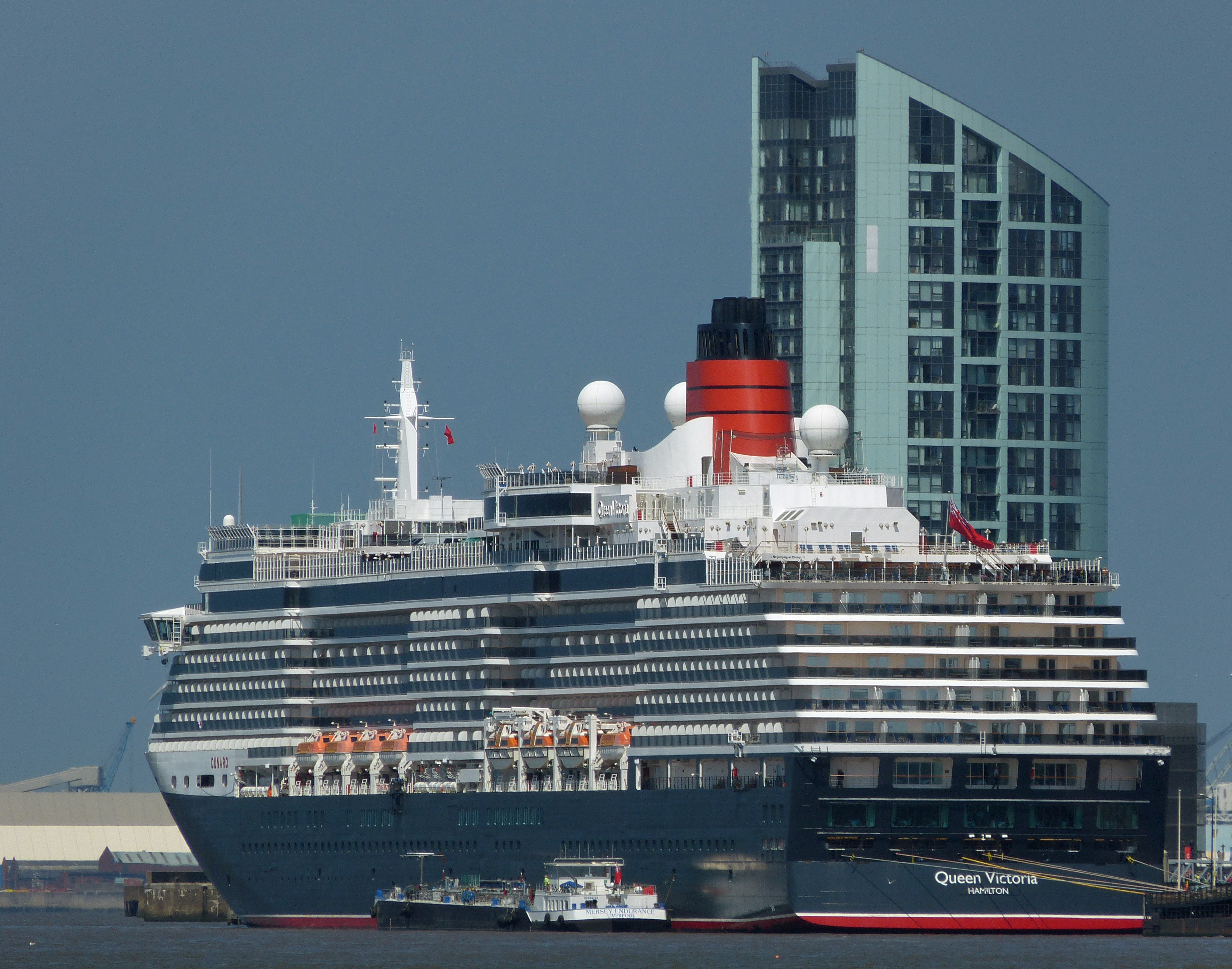 Queen Victoria in Liverpool